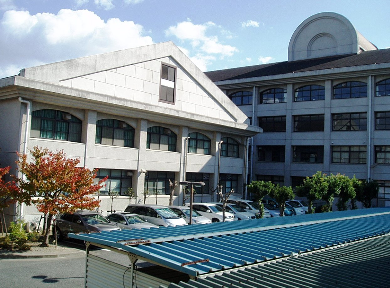 Hyogo Prefectural Hyogo Senior High School (North side)